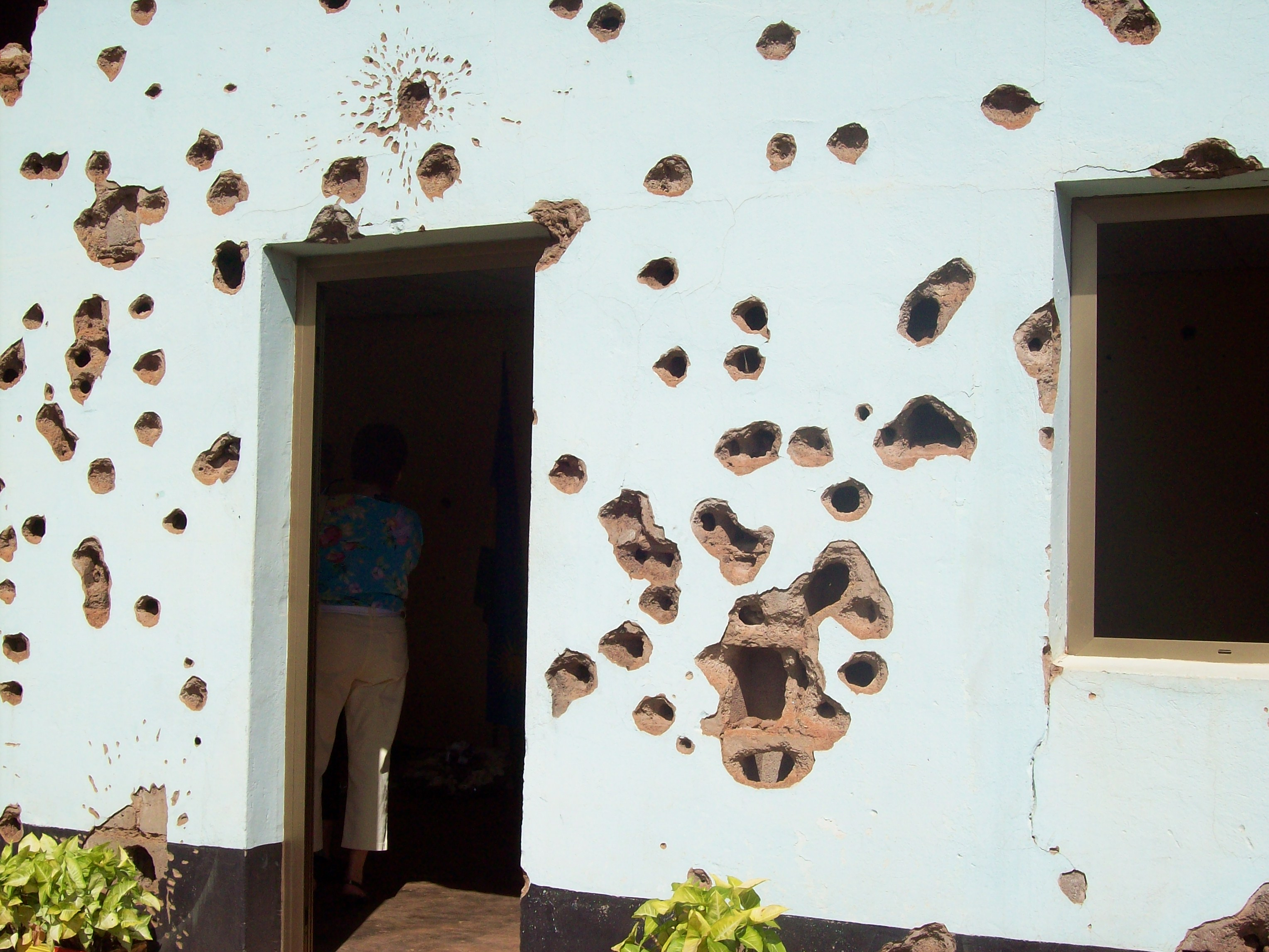 Memorial for the dead belgian UNAMIR Blue Berets in Kigali, Rwanda